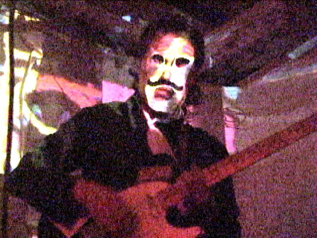 Les Georges Leningrad @ Mighty Robot,Brooklyn on Oct 25 2003 Video frame from PUNKCAST#352